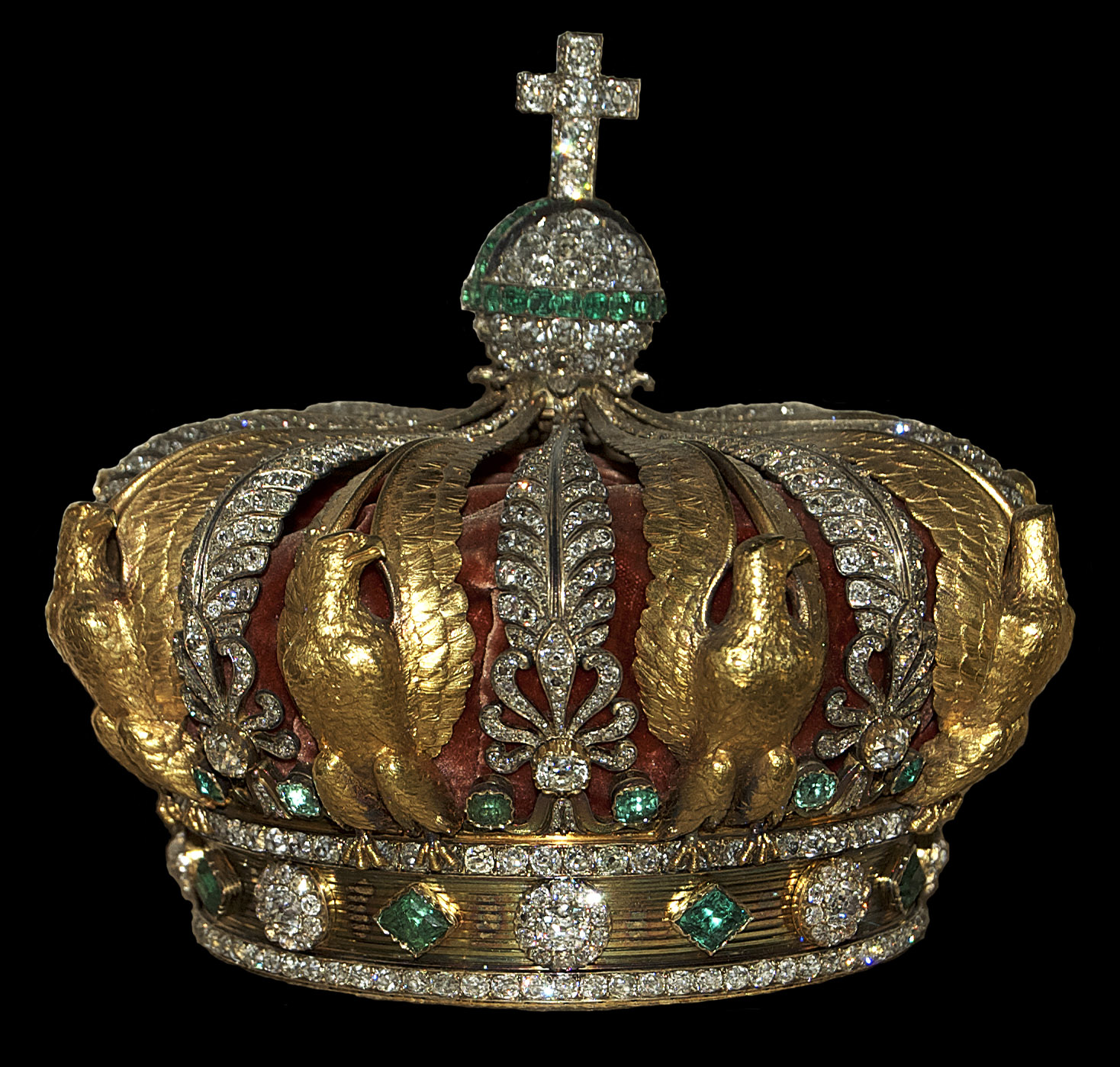 cropped, slight sharpen, blackened background